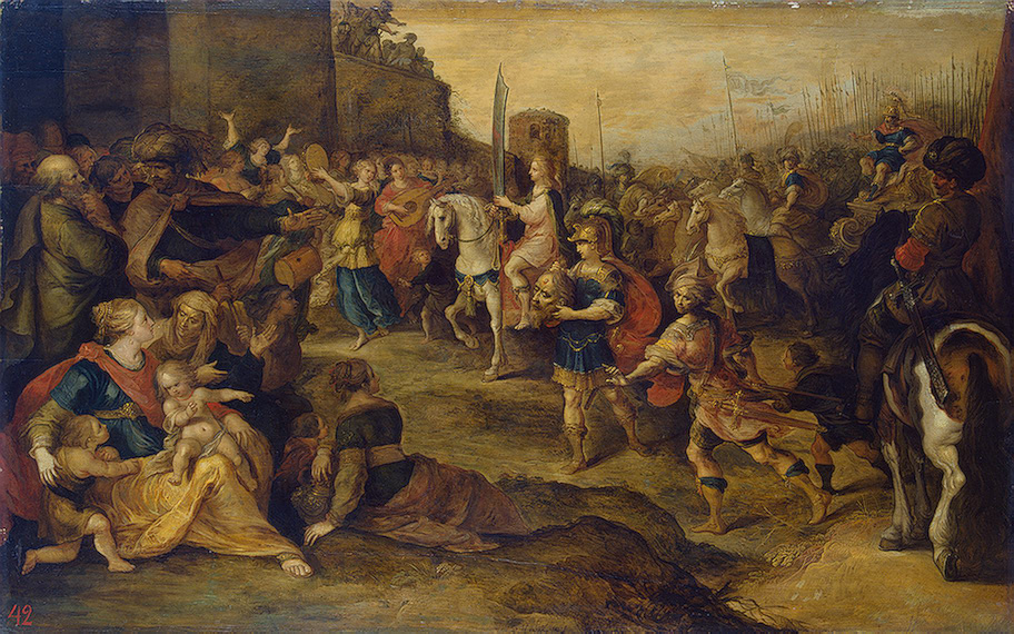 Entry of King David into Jerusalem